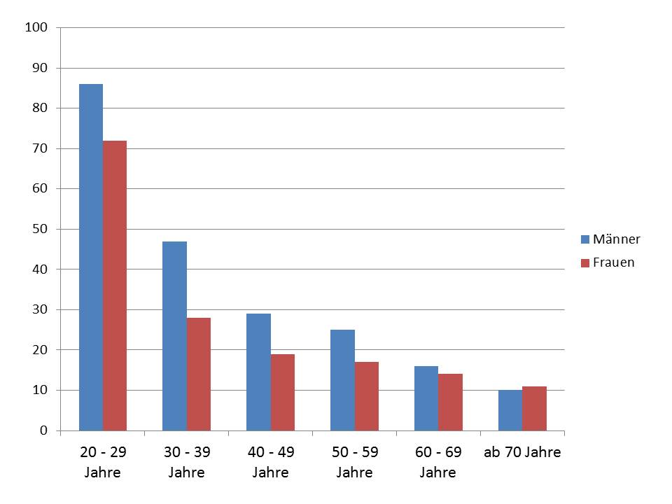 Childlessness in Germany 2014